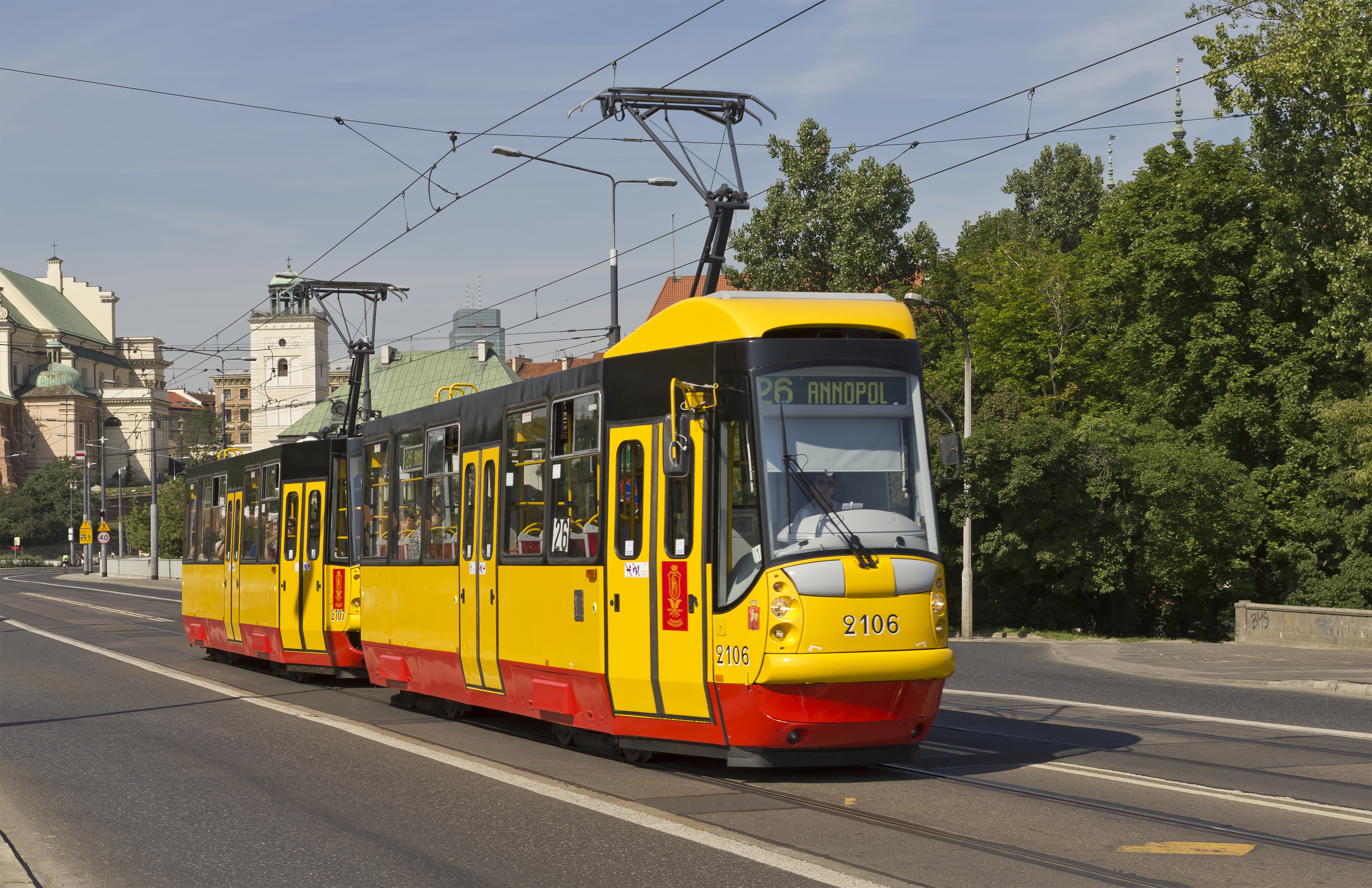 Tram in Warsaw (Poland), photographed on Slasko-Dabrowski Bridge